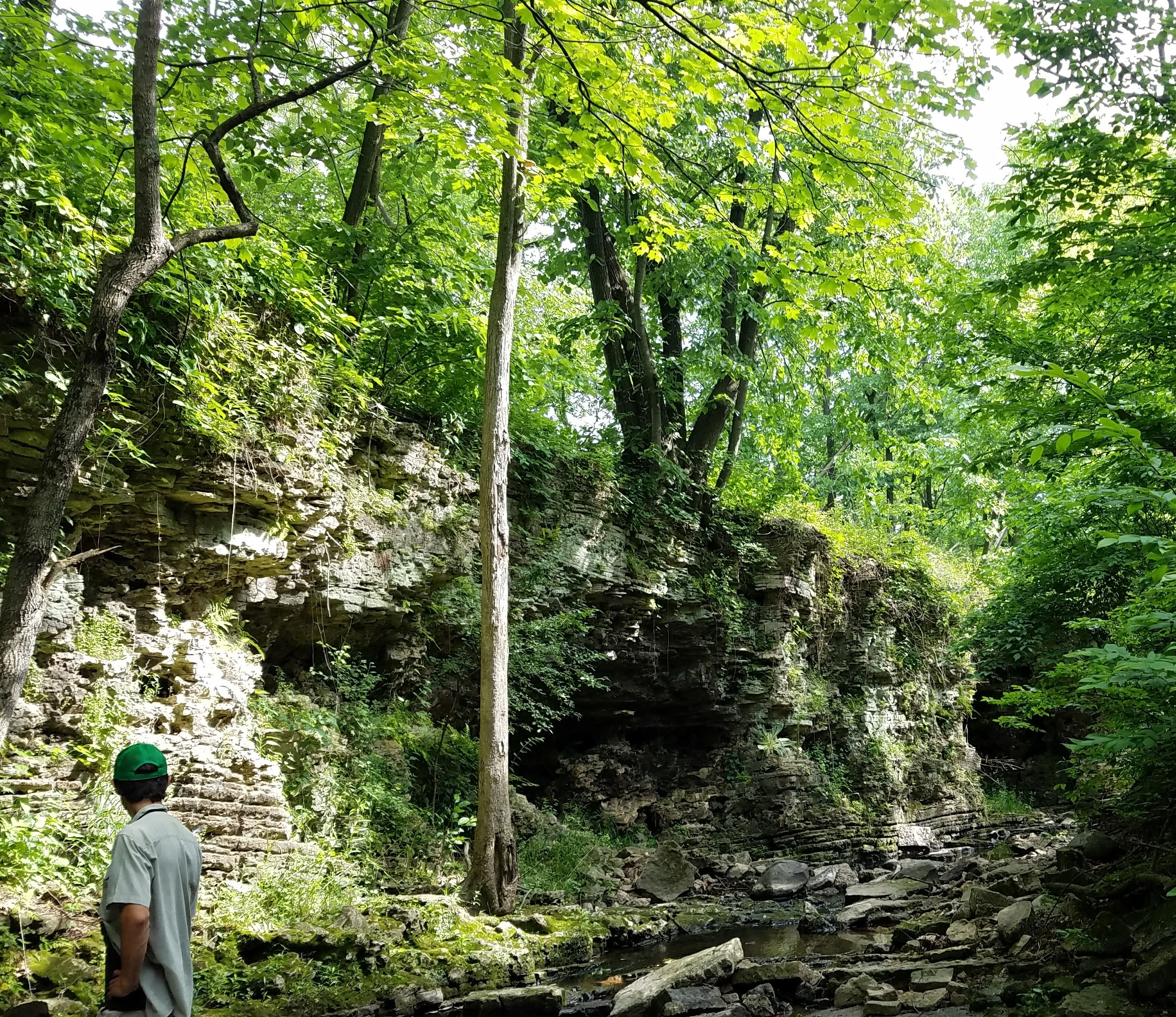 Sagawau Canyon, Cook County, in June 2017